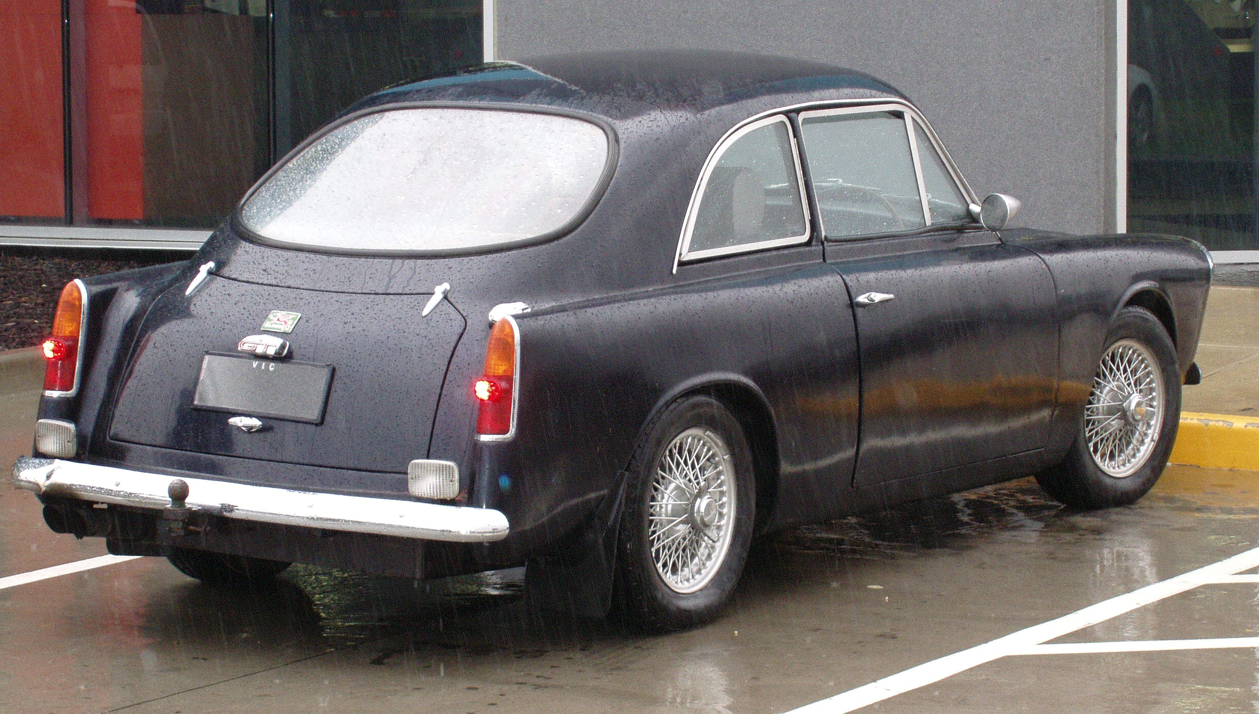 Gilbern GT 1800, a rare Welsh sports car. One of only a few in Australia. Raining heavily.